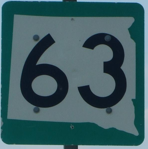 Profile of a South Dakota state highway sign, namely South Dakota Highway 63.